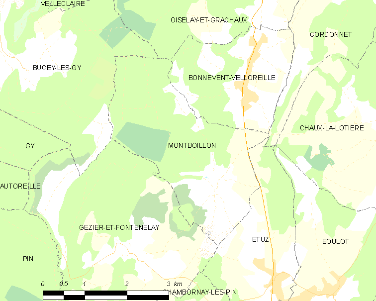 Map of French municipality